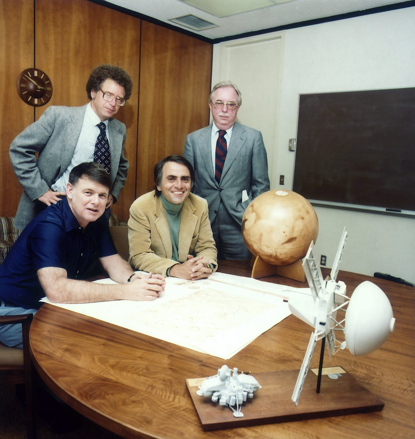 Planetary society founders. Original caption: "Founding of the Planetary Society Carl Sagan, Bruce Murray and Louis Friedman, the founders of The Planetary Society at the time of signing the papers formally incorporating the organization. The fourth person is Harry Ashmore, an advisor, who greatly helped in the founding of the Society. Ashmore was a Pulitzer Prize winning journalist and leader in the Civil Rights movement in the 1960s and 70s."